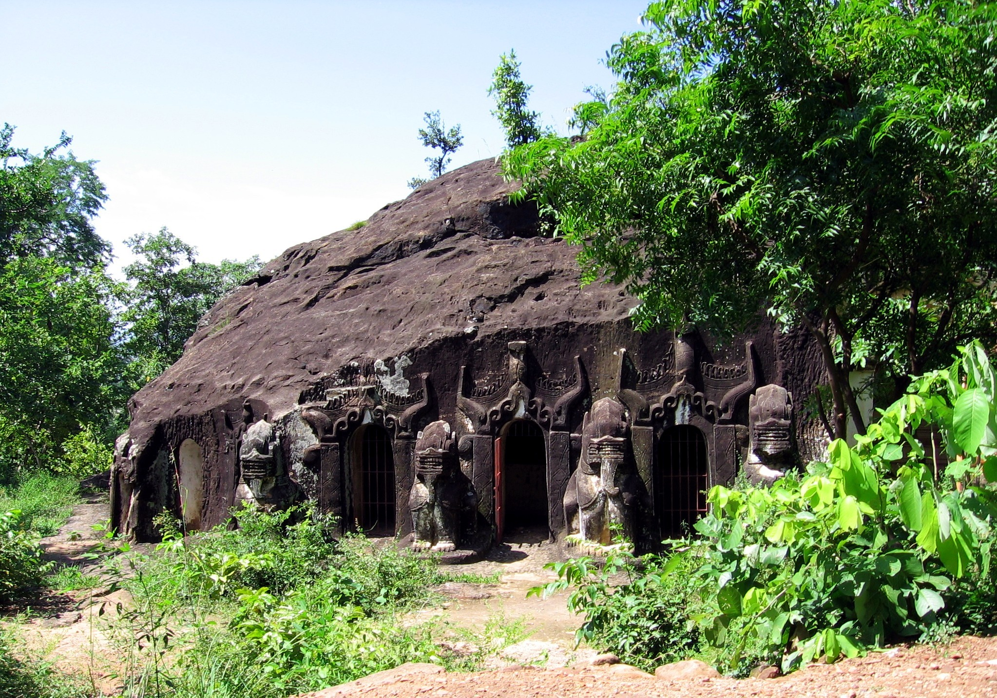 Hpo Win caves, near Monywa, Myanmar.